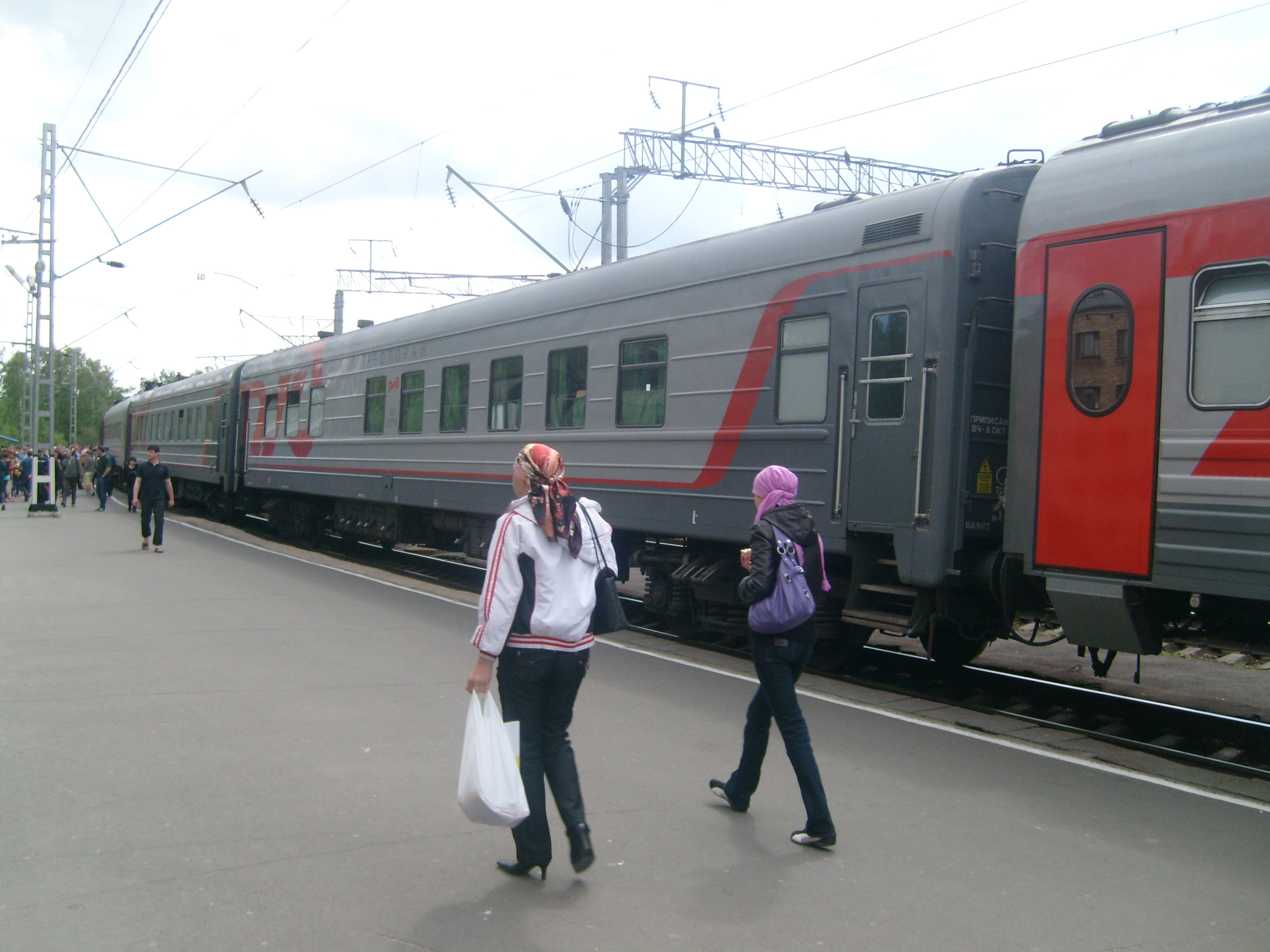 Вагон-ресторан фирменного поезда "Арктика".